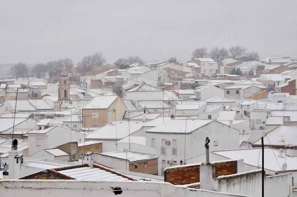 Snow in El Saucejo, Seville